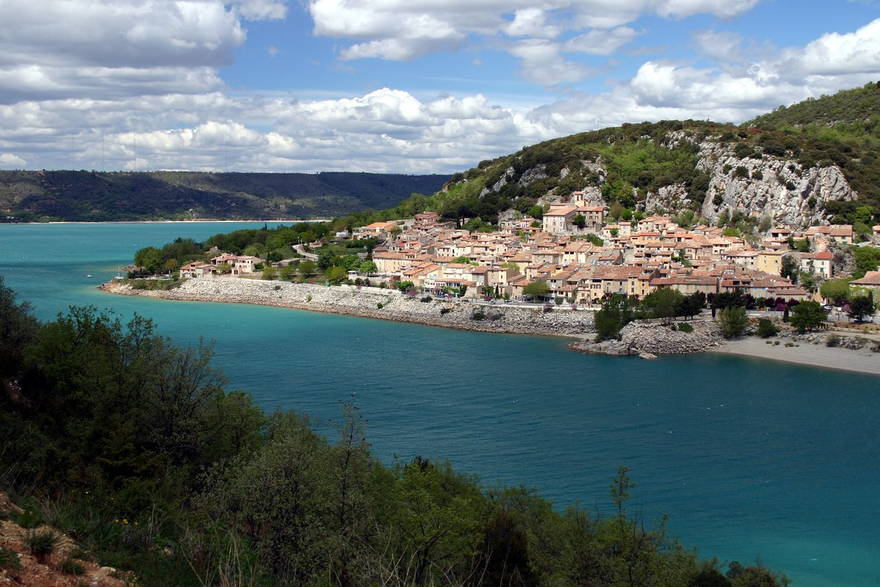 Bauduen is a village and commune in the Var département of southeastern France.